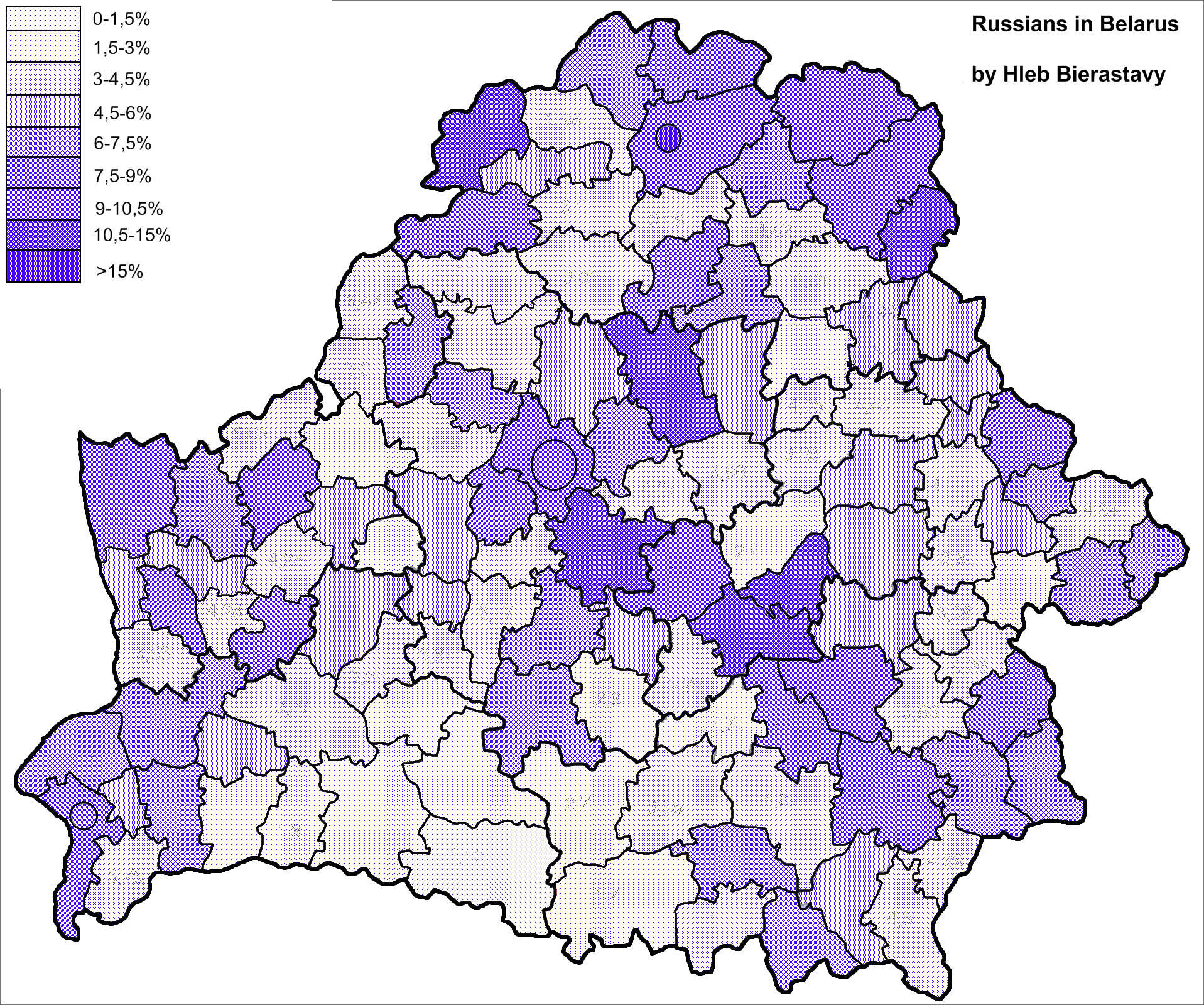 Russians in Belarus, according to the results of population census in 2010 Беларуская (тарашкевіца): Расейцы ў Беларусі паводле перапісу насельніцтва ў 2010 г.